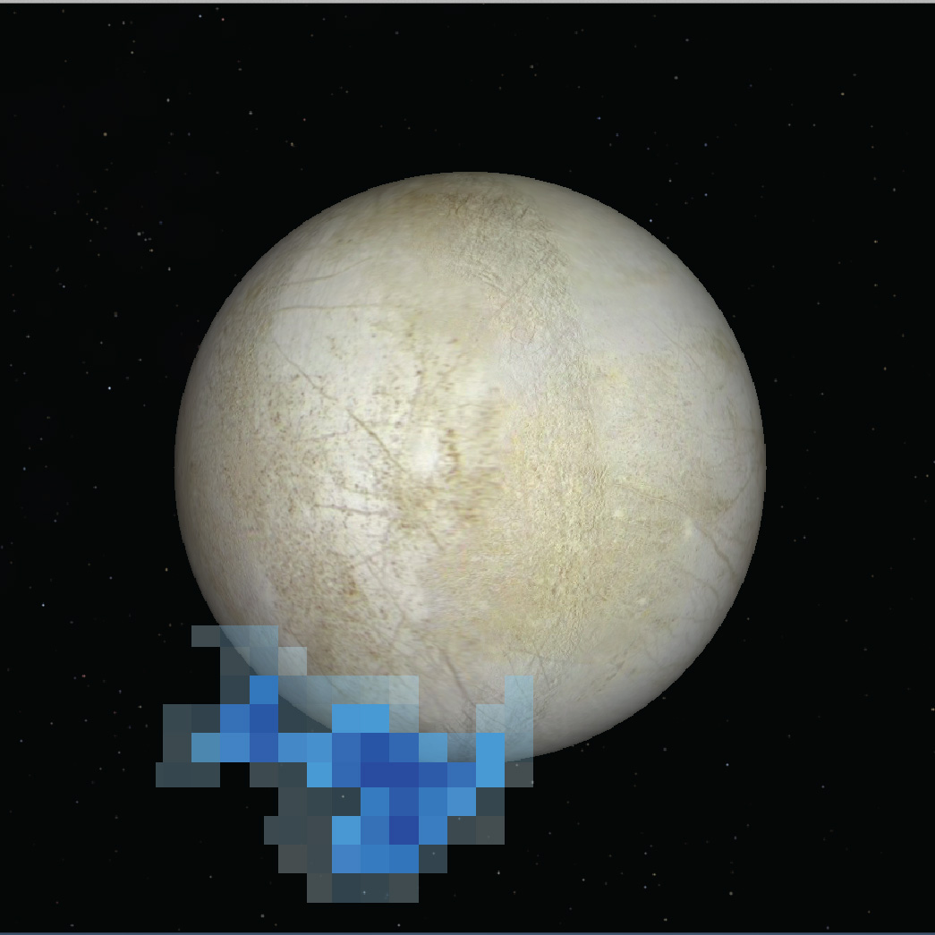 This graphic shows the location of water vapor detected over Europa's south pole in observations taken by NASA's Hubble Space Telescope in December 2012. This is the first strong evidence of water plumes erupting off Europa's surface. Hubble didn't photograph plumes, but spectroscopically detected auroral emissions from oxygen and hydrogen. The aurora is powered by Jupiter's magnetic field. This is only the second moon in the solar system found ejecting water vapor from the frigid surface. The image of Europa is derived from a global surface map generated from combined observations taken by NASA's Voyager and Galileo space probes.